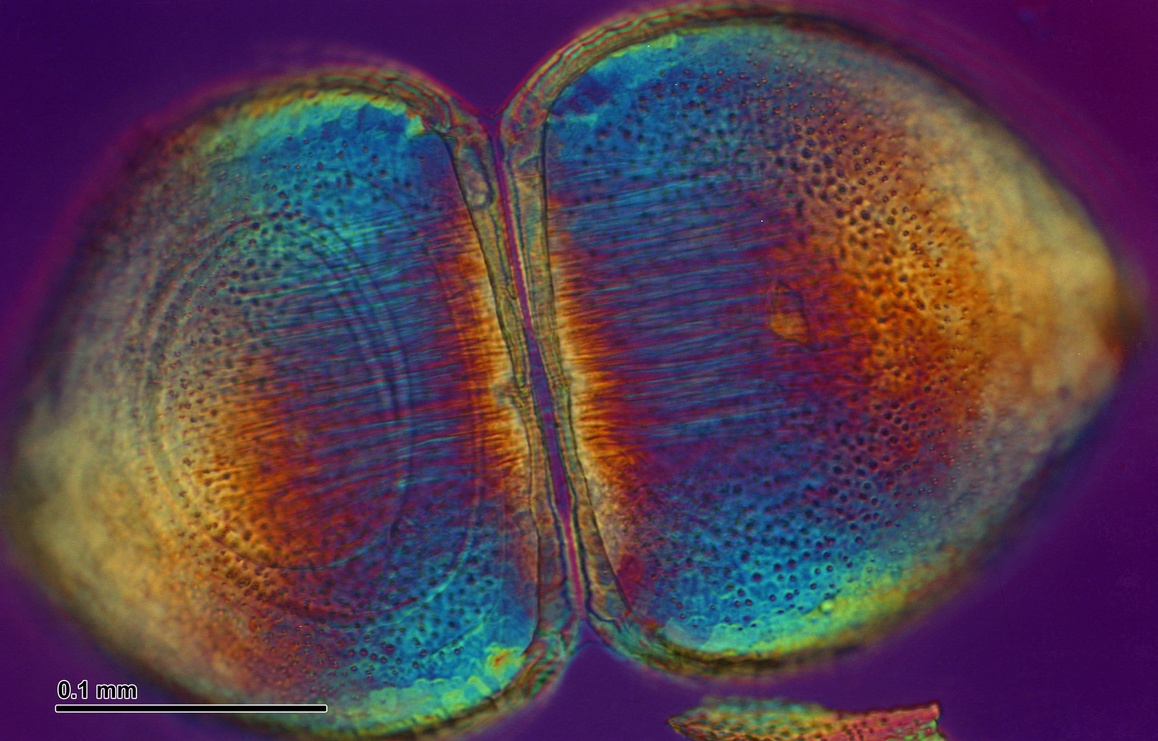 Swan mussel (Anodonta cygnea): Glochidium (larva). Optical microscopy technique: Differential interference contrast (Nomarski). Magnification: 600x (for picture width 26 cm ~ A4 format).